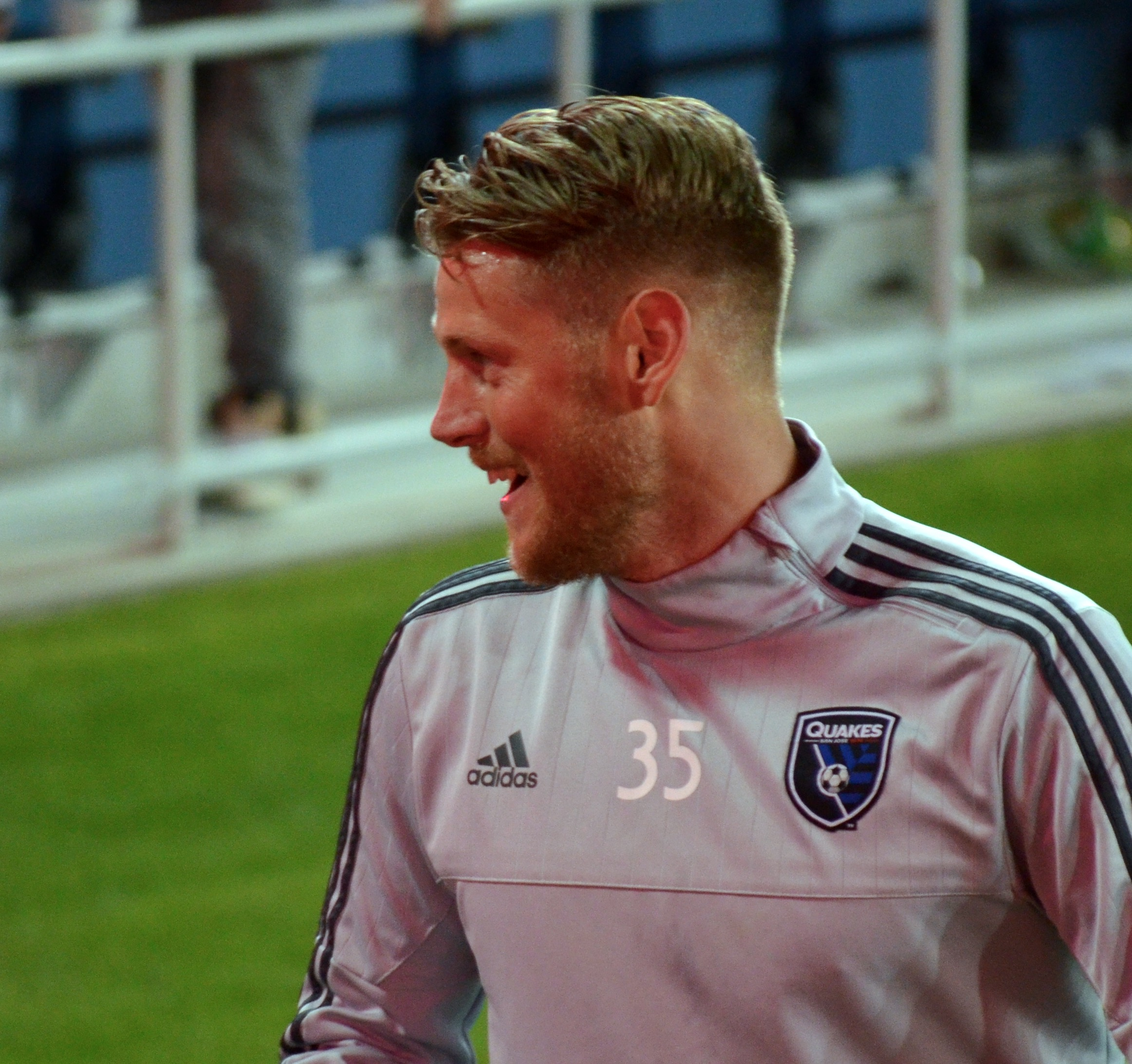 Bryan Meredith training for the San Jose Earthquakes after a game vs the Vancouver Whitecaps on 11 April 2015